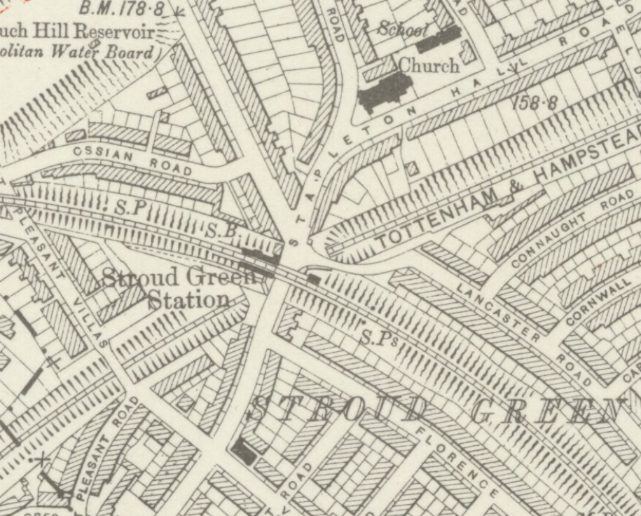 Stroud Green station in north London on a 1920 Ordnance Survey map.